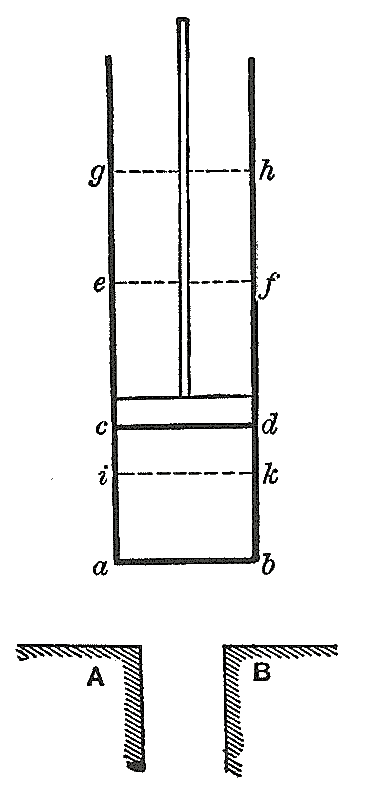 Sadi Carnot's pison-and-cylinder diagram from 1824